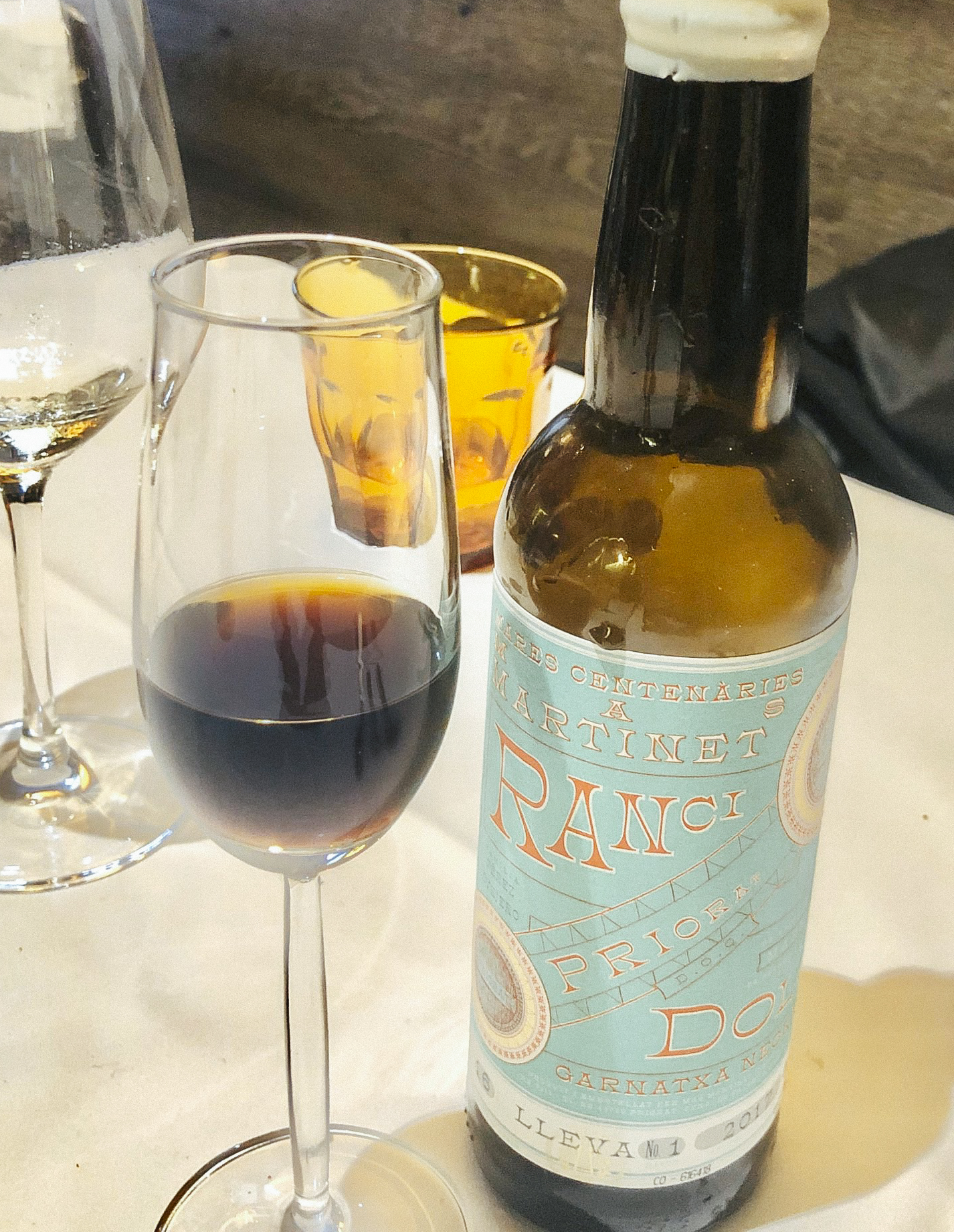 Vi ranci, Catalonian type of wine (Spain), 'DO Priorat'.